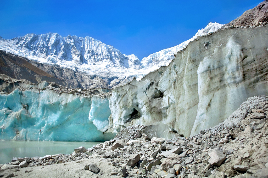 Llaca glacier located in central Peru in the Cordillera Blanca (White Range).